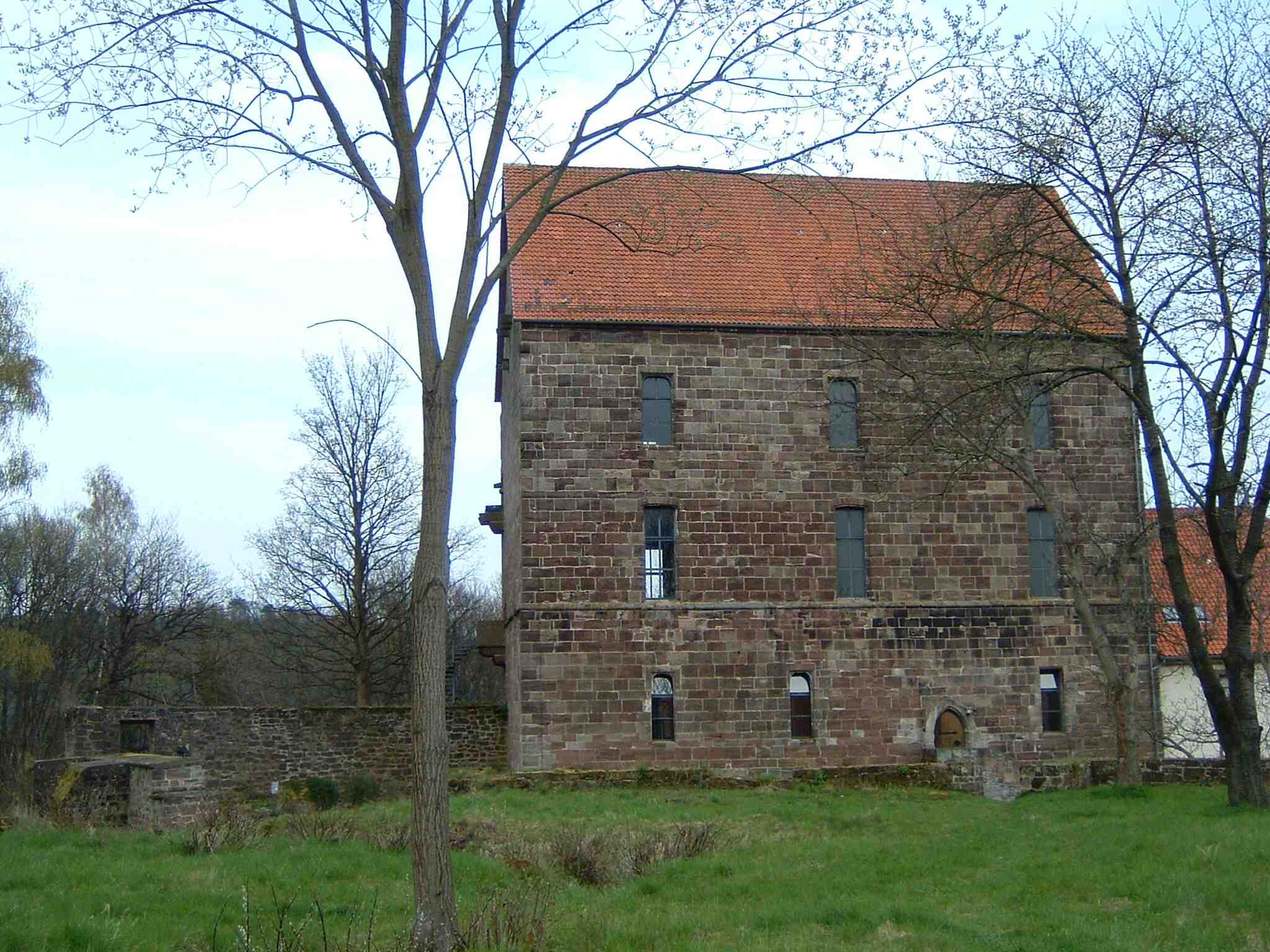 Inner buildings of the Hardeg Castle in Hardegsen, Germany